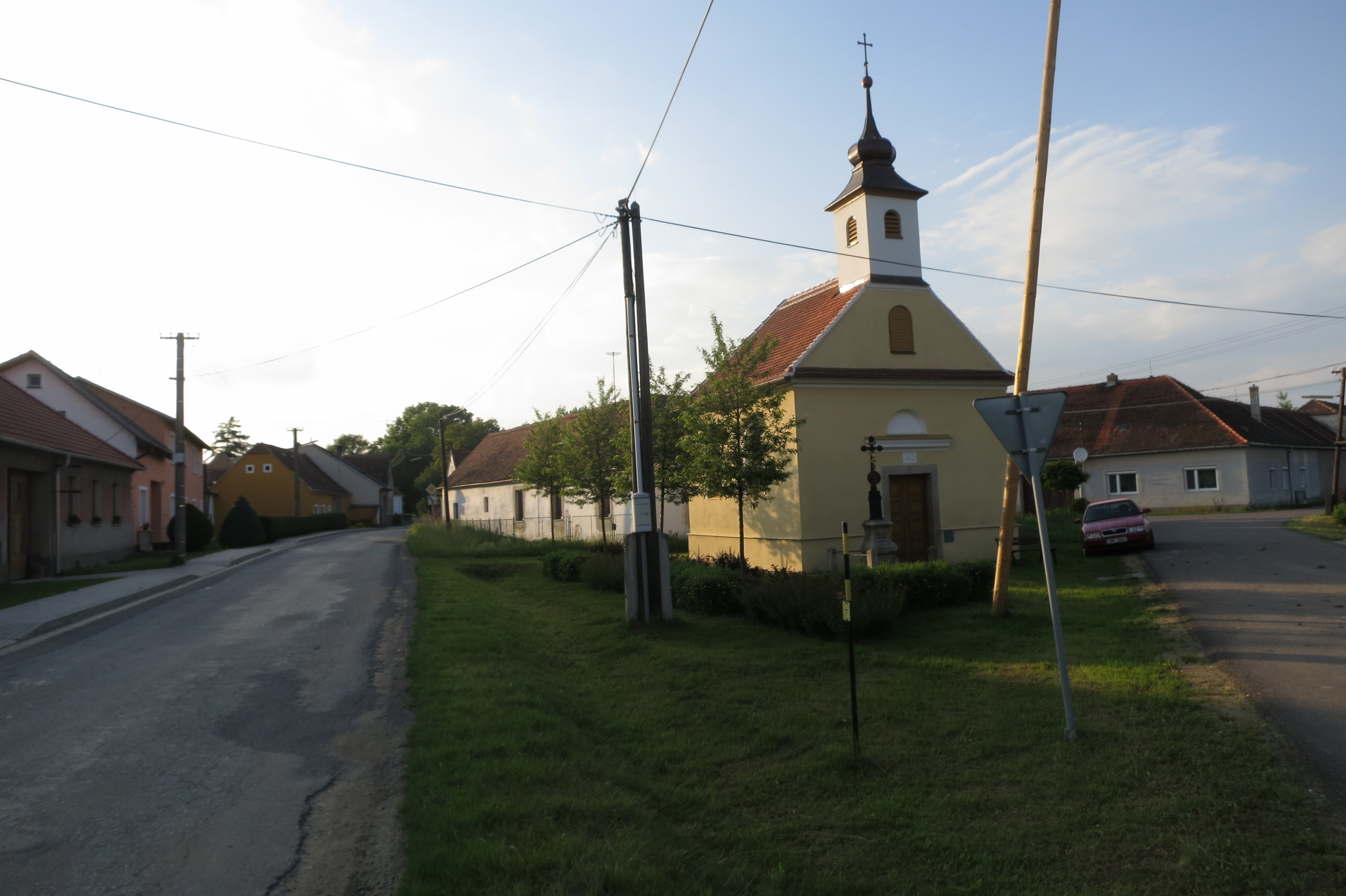 Center of Jiratice, Třebíč District.